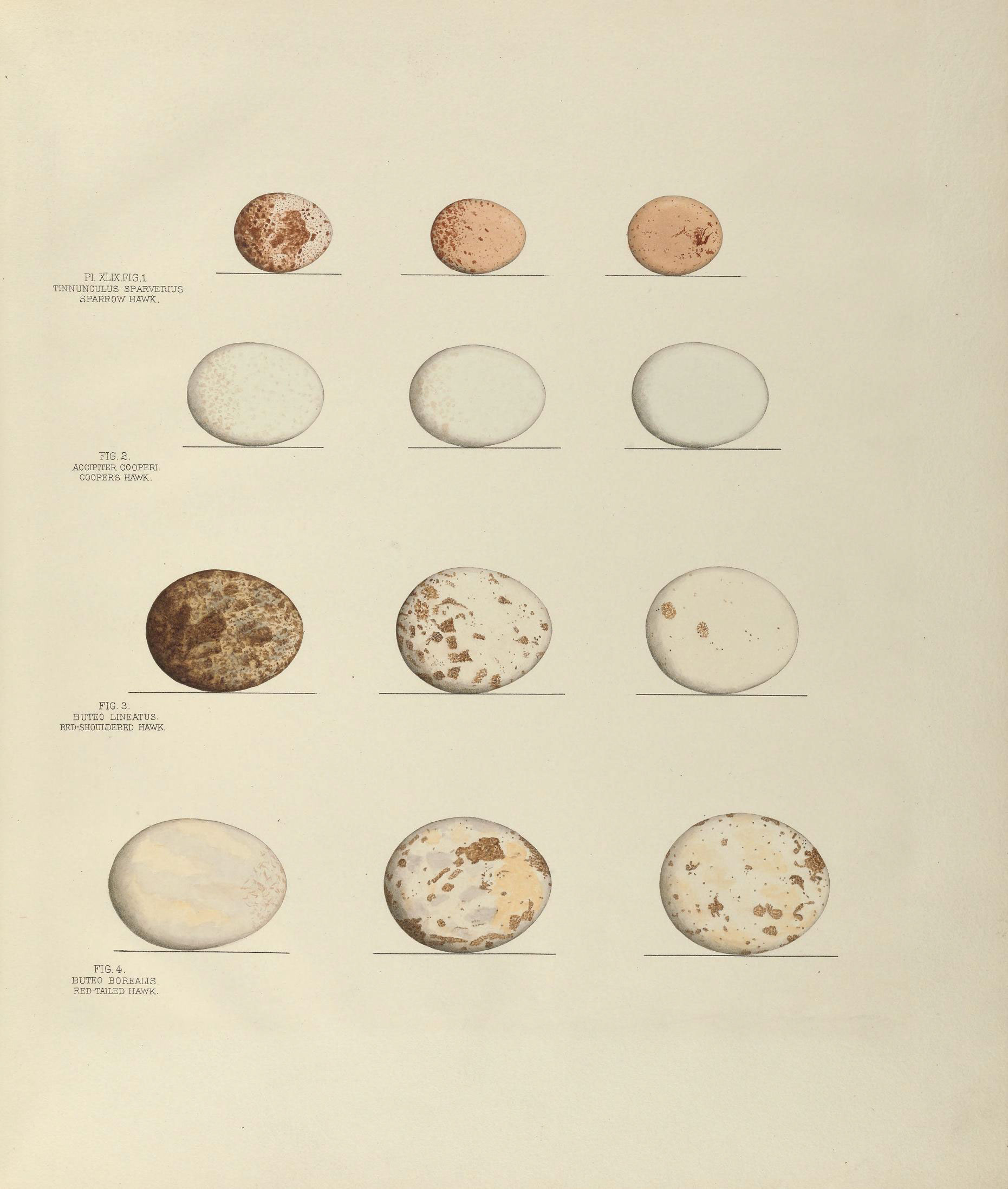 PL XLIX.FI6.1 TINNUNCULUS SPARVERIUS SPARROW HAWK. fig. a. AC CIPHER CO OPERI. COOPER'S HAWK. FIG. 3. BUTEO LINEATUS. RED-SHOUIDERED HAWK, FIG. 4. BUTEO BOREALIS. RED -TAILED HAWK.